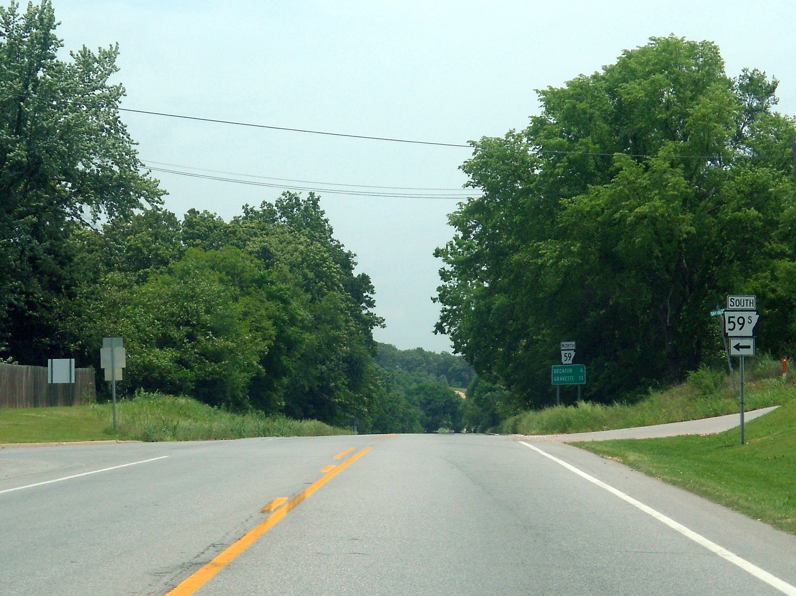 Hwy. 59S eastern terminus at parent route in Gentry, AR